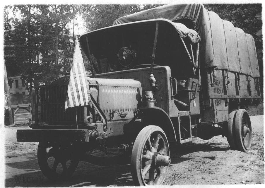 Second-Series Liberty truck- note the gas generator and oil lamps on the front, steel cast wheels and larger cab handles. The second style of Radiator cap is barely visible